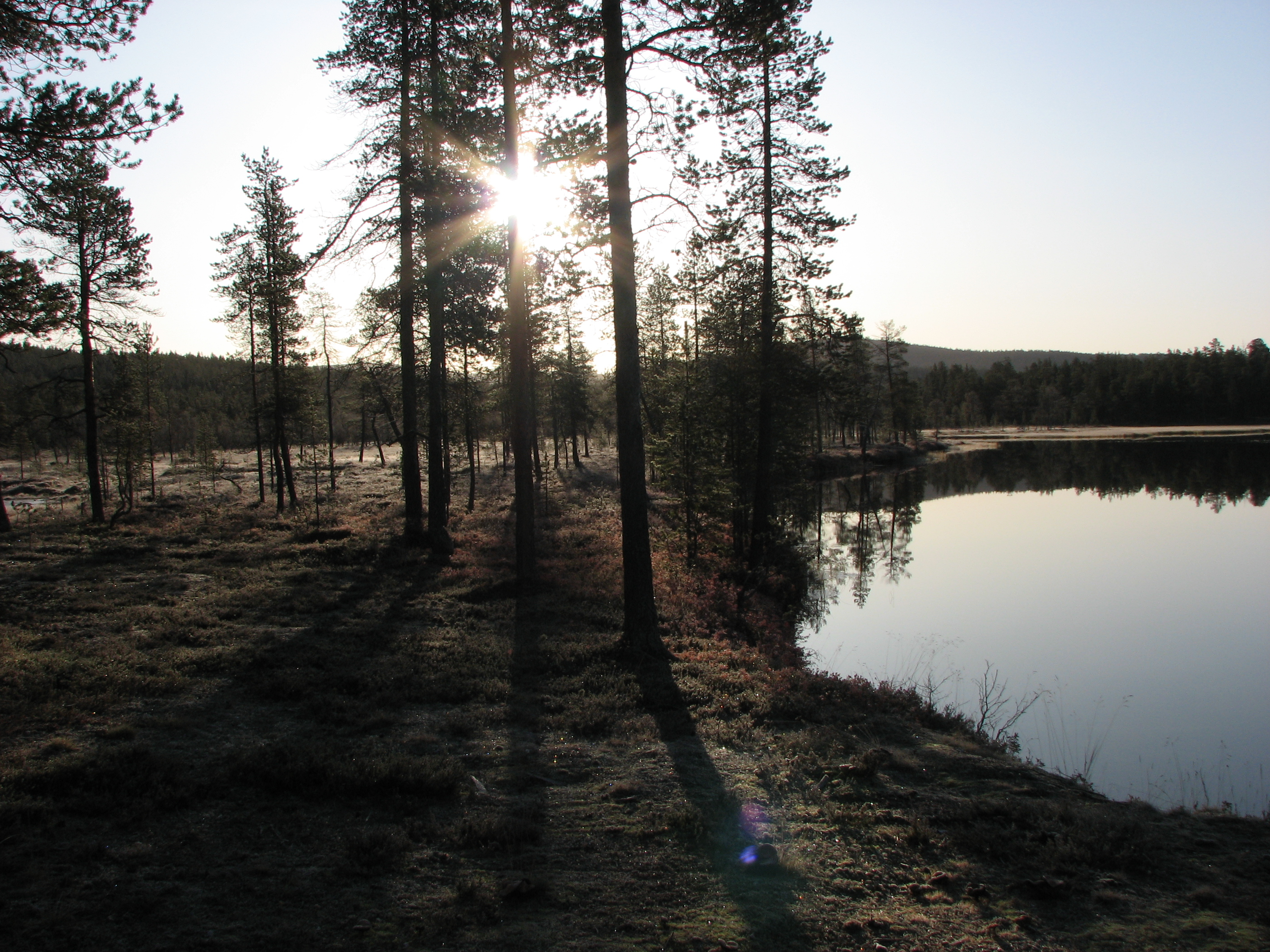 A below-zero-degrees September morning in Harrijärvi, Urho Kekkonen National Park, Finland. The nearby swamp froze during the night.